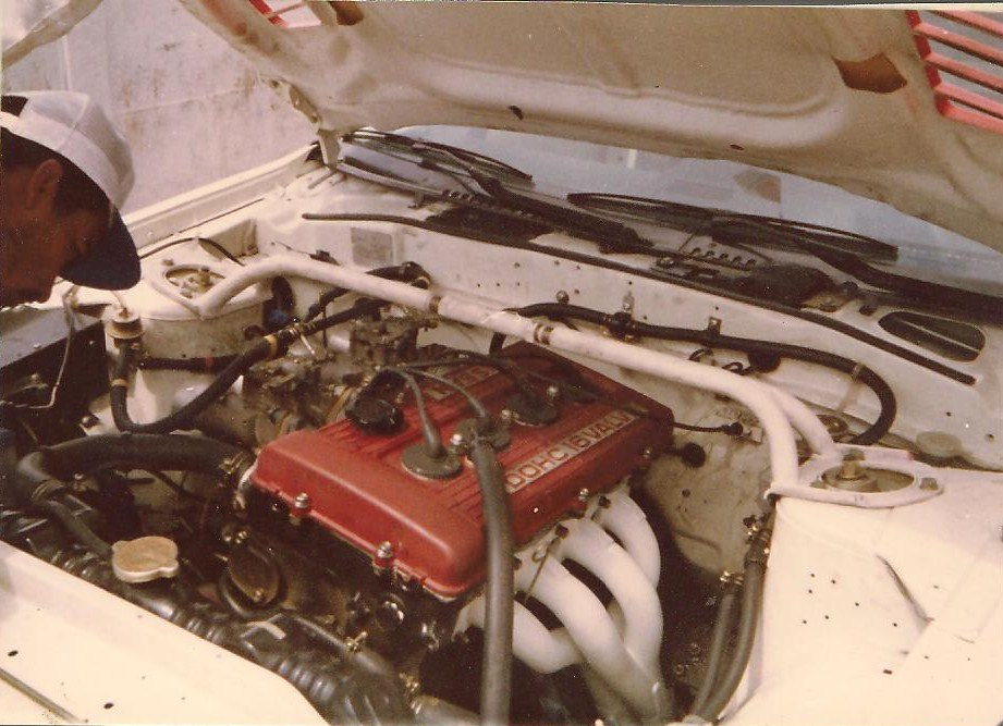 33 D FJ24 Engine